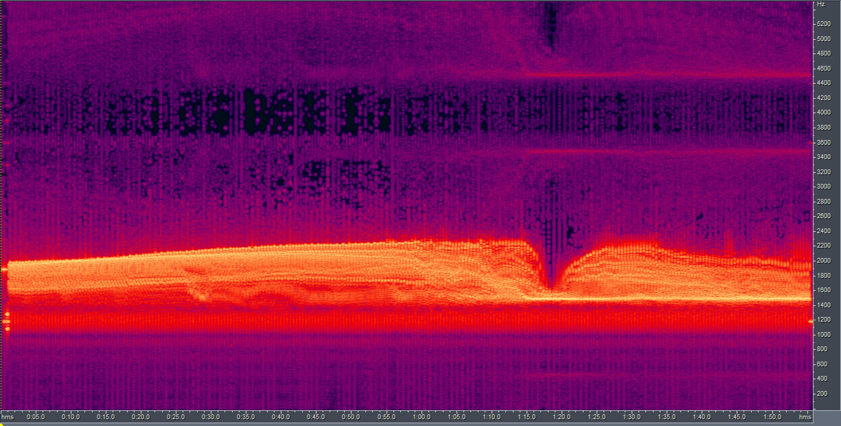 Spectral Analysis of SSTV_Sunset_audio.ogg, created with Cool Edit 2.0